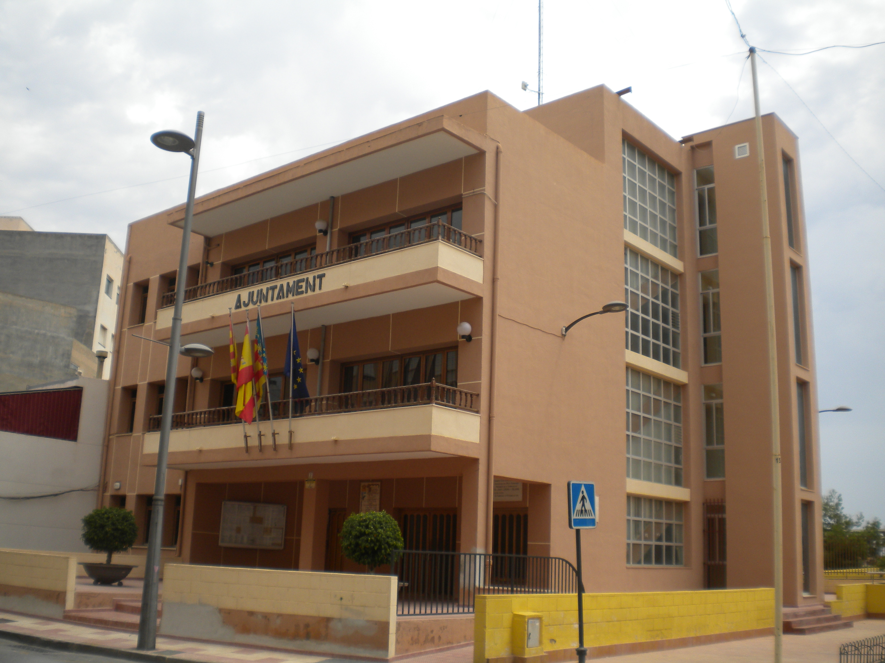 Town Hall of El Campello (Alicante, Spain)